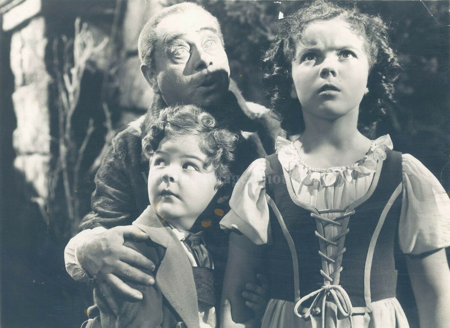 Front view of press photograph for "The Blue Bird", 1940 film